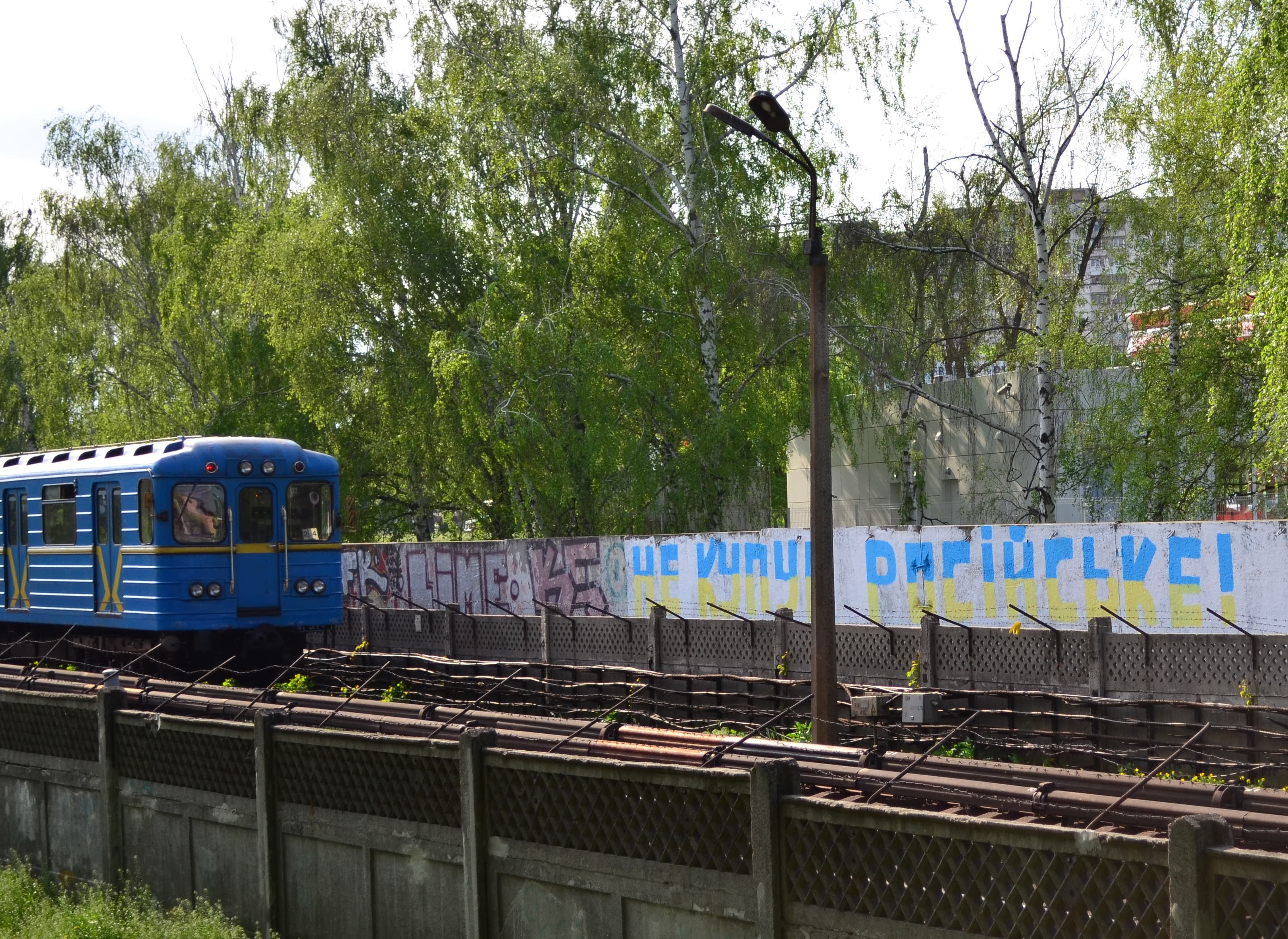 Graffiti that says the name of the campaign "Do not buy Russian goods!" in Ukrainian. Kiev, Ukraine.